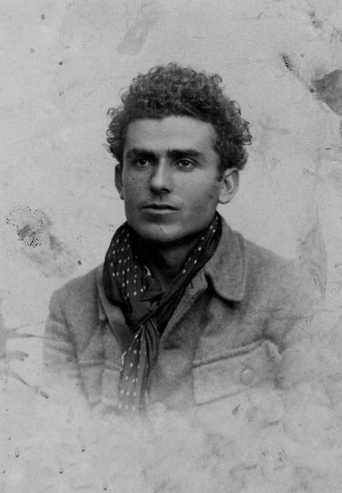 Portrait of a young Petro Marko